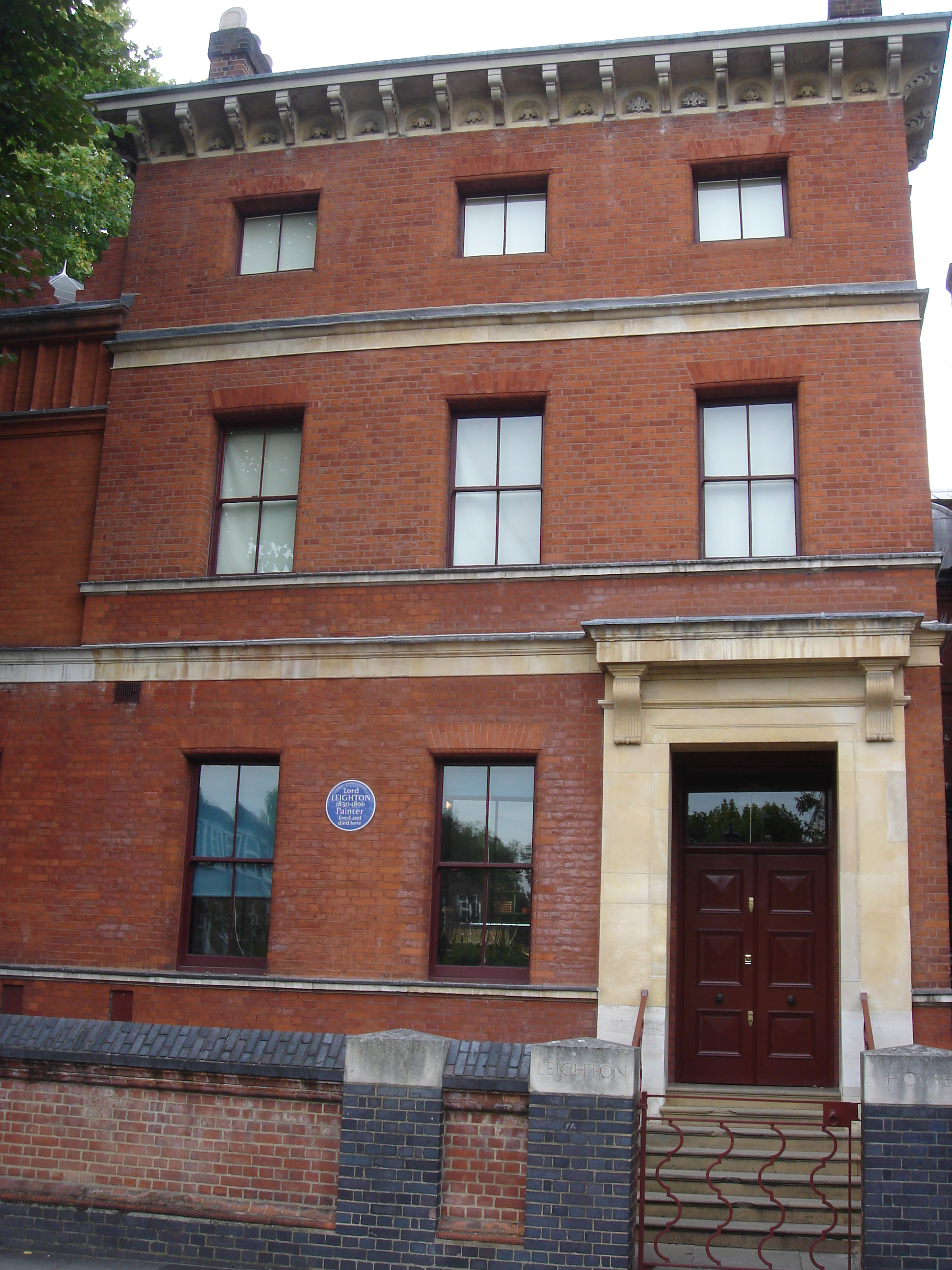 Leighton House